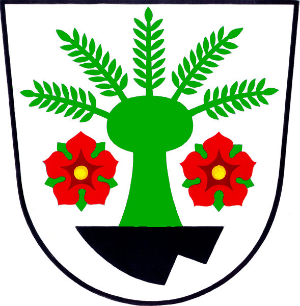 Municipal coat of arms of Suchá Loz village, Uherské Hradiště District, Czech Republic.